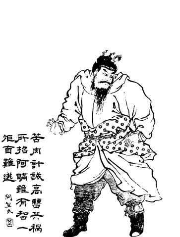 A Qing dynasty illustration of Huang Gai